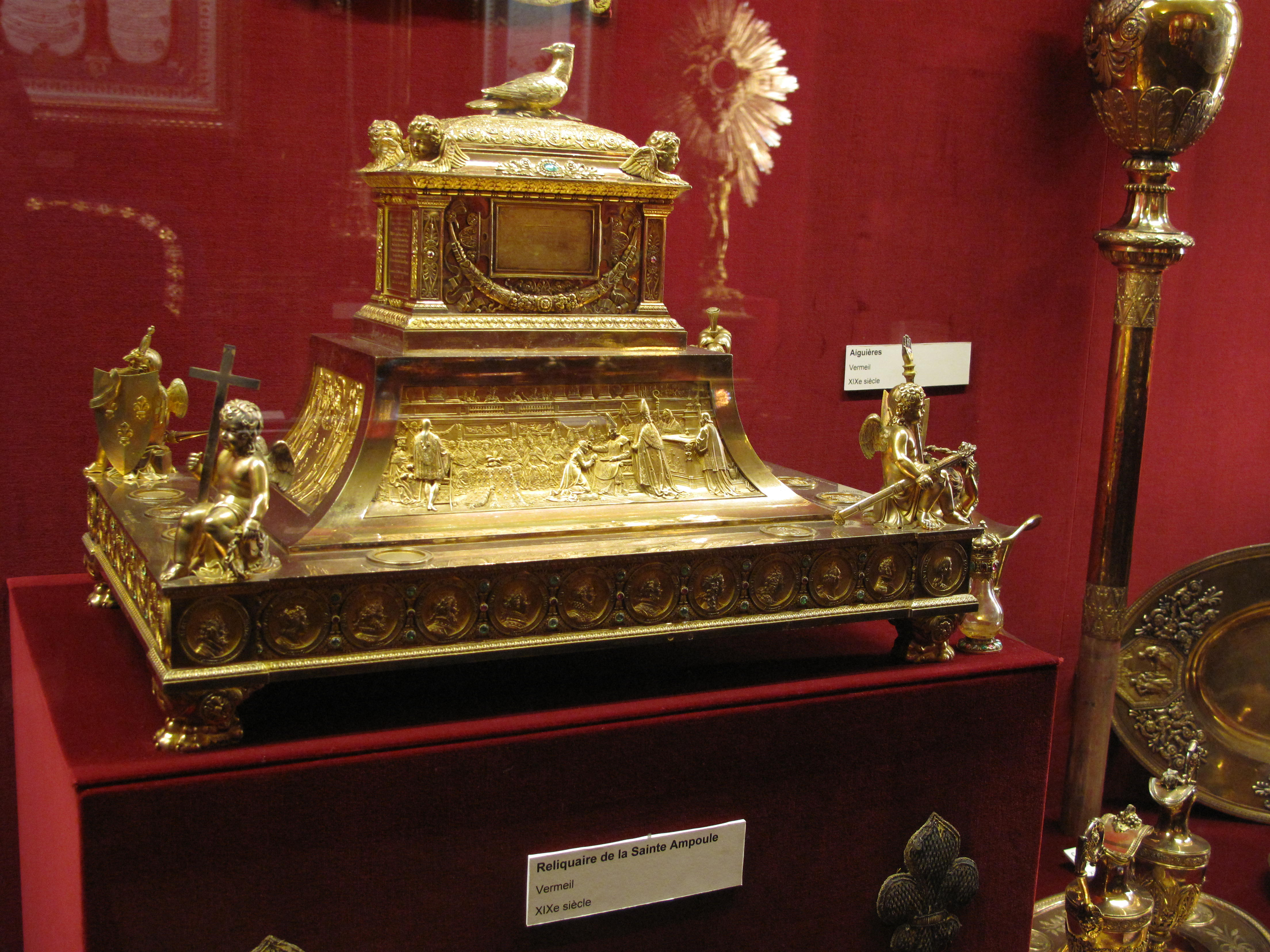 Relicary of the Holy Ampulla preserved in the treasury of the palais du Tau in Reims (Marne, France).